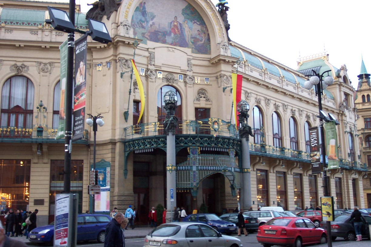 Municipal House, Prague, Czech Republic